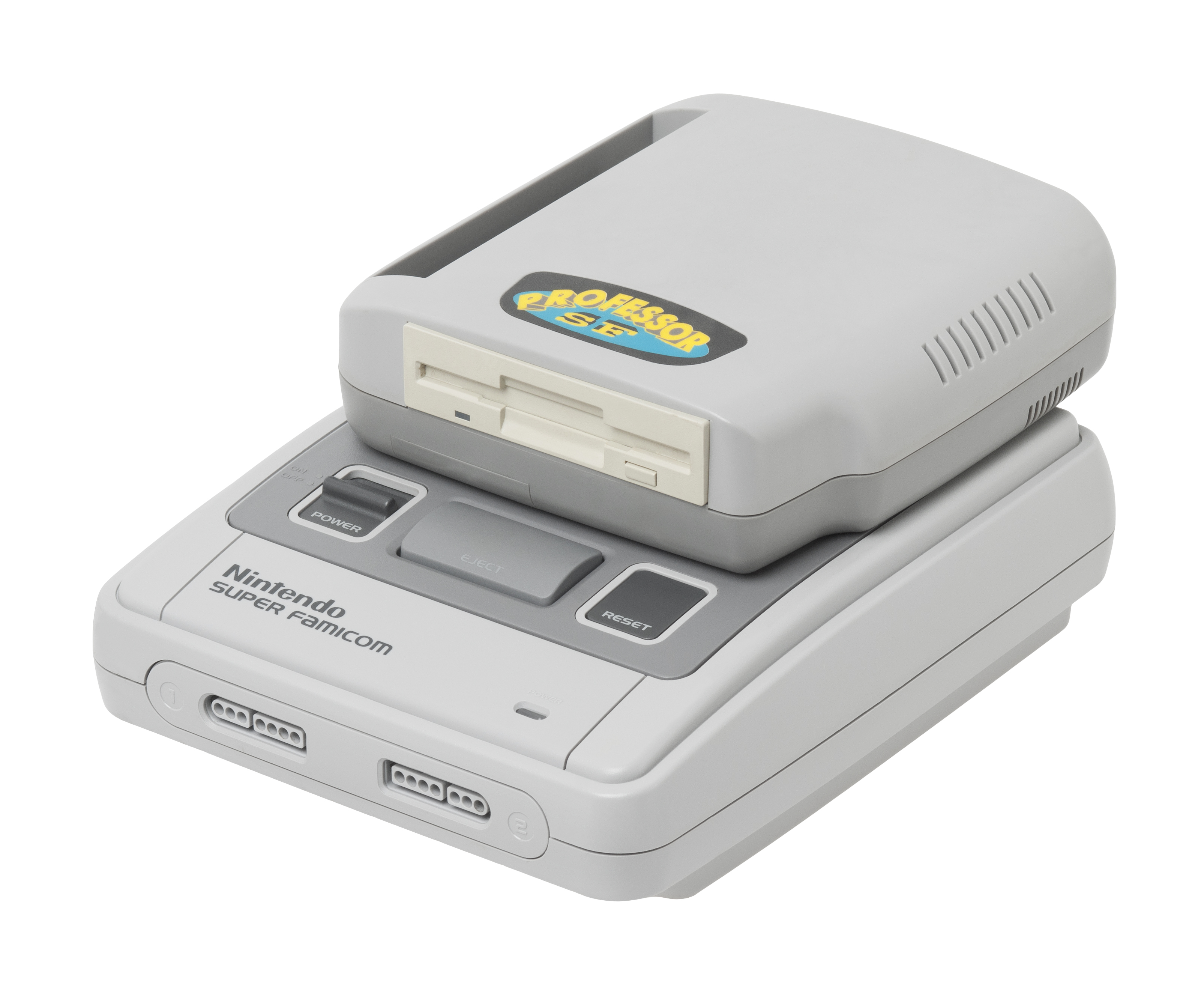 A Professor SF attached to a Japanese Super Famicom video game console. The Professor SF allowed for backing up/copying of game carts to floppy disks, save states and cheats.